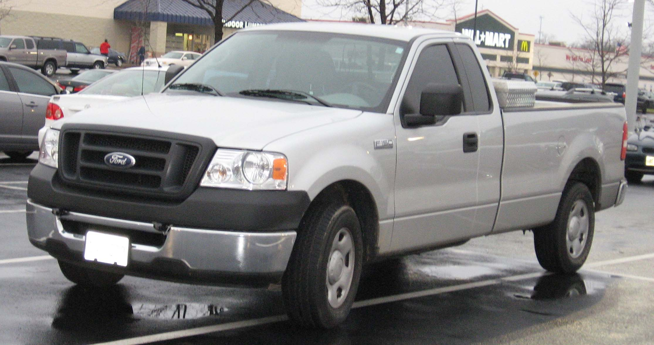 2004-2007 Ford F-150 photographed in USA.